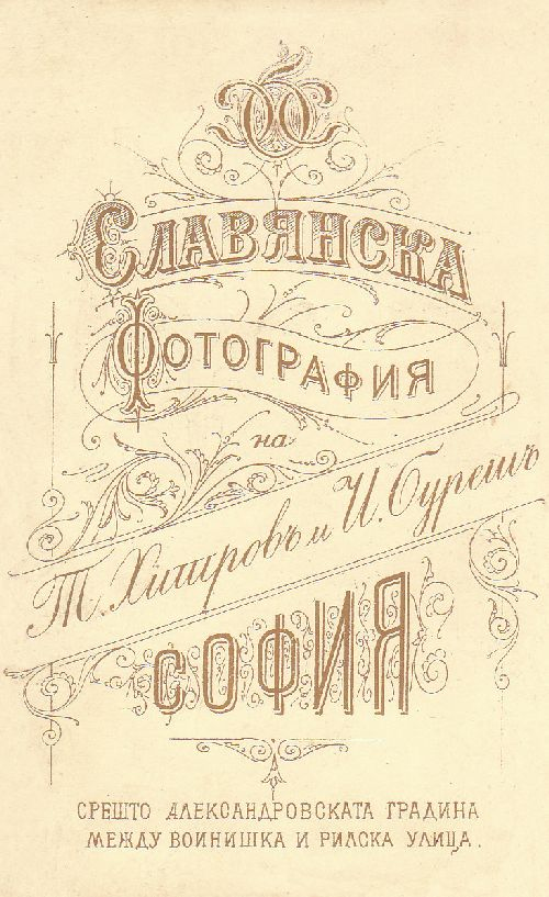 Toma Hitrov and Josef_Bureš Trademark.